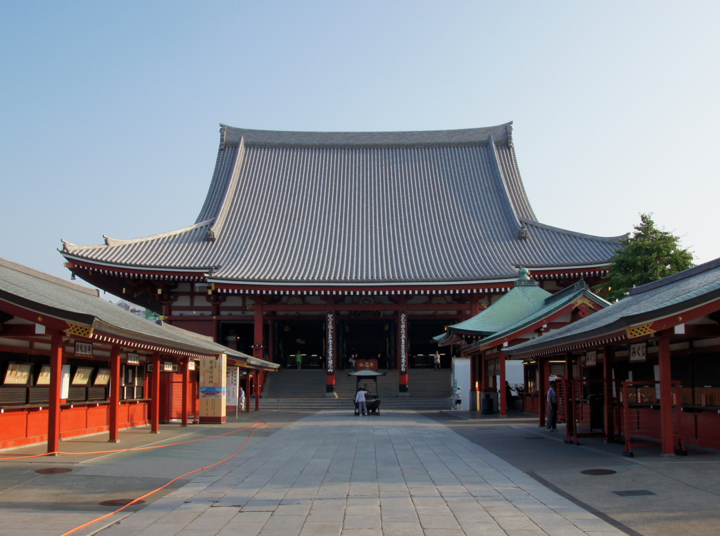 Main hall of Sensō-ji temple in Asakusa, Tokyo